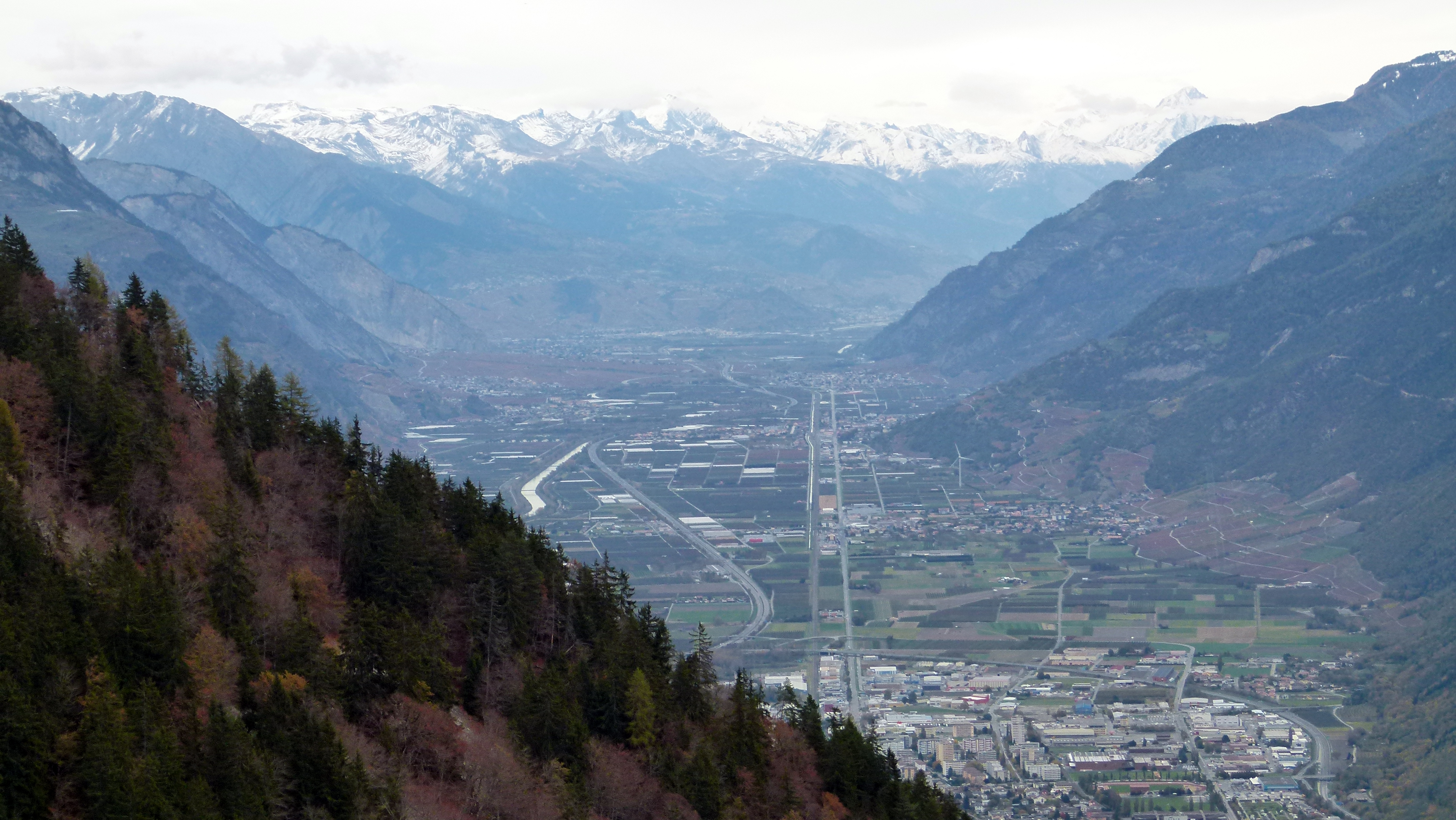 Martigny